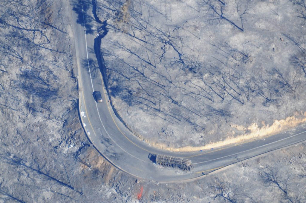 Mount Carmel forest fire 2010